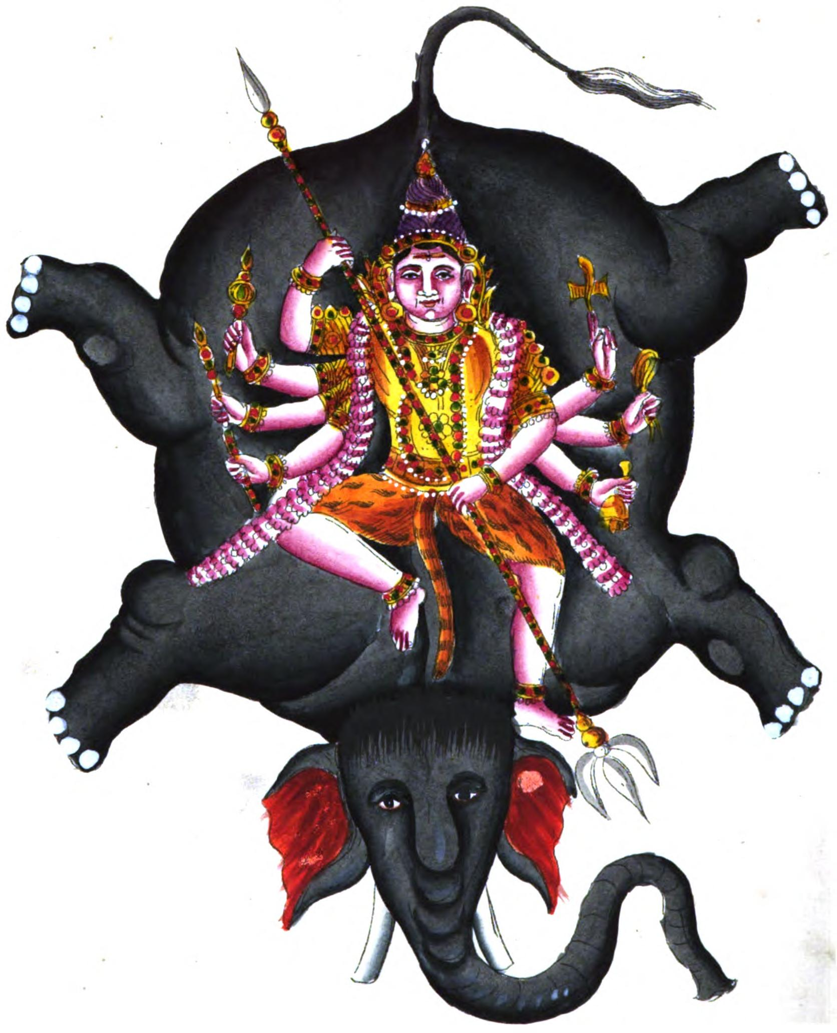 Gaja-samhara